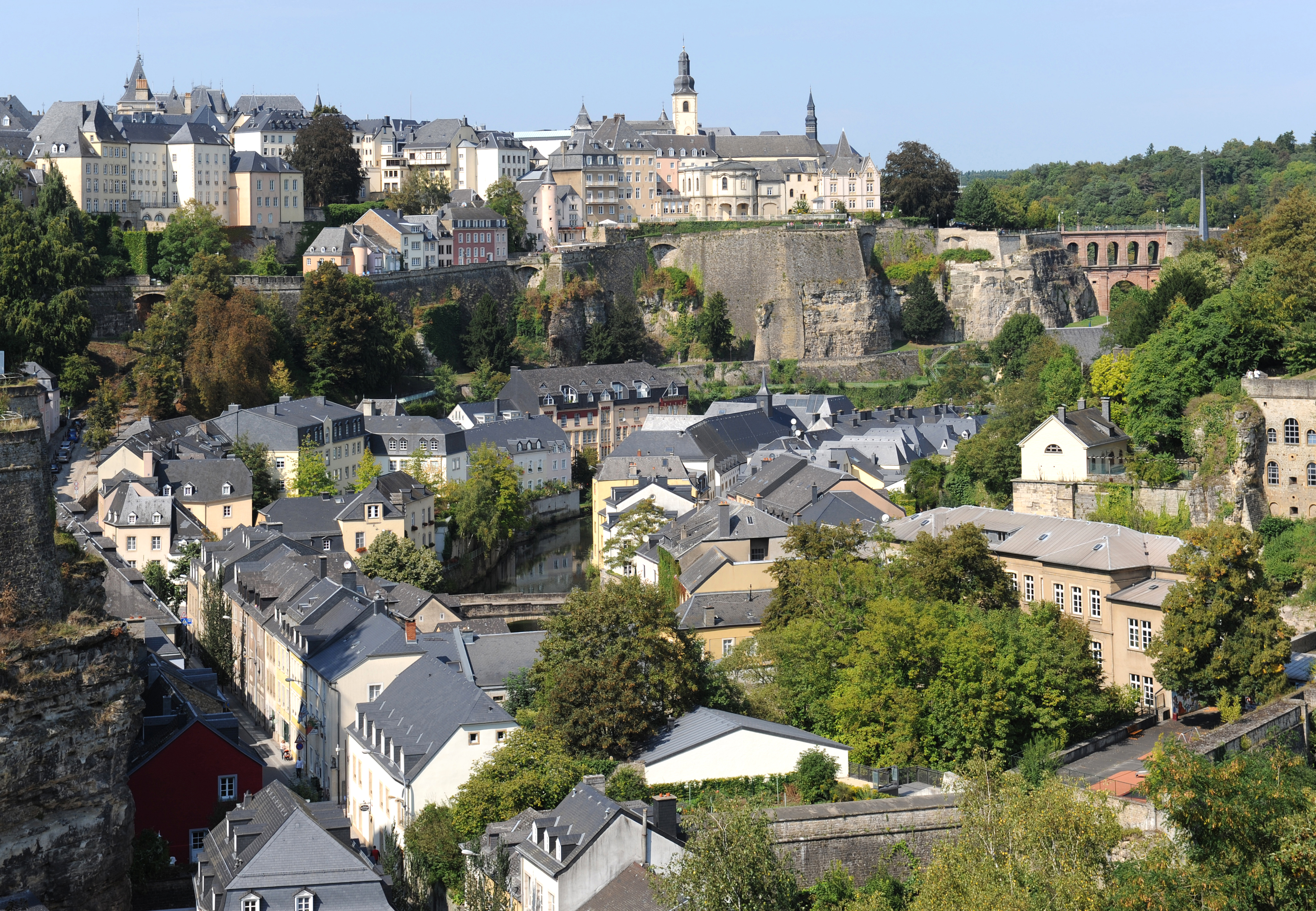 Luxembourg-Grund seen from Verlorenkost, at mid-height of the path leading from Verlorenkost to Grund